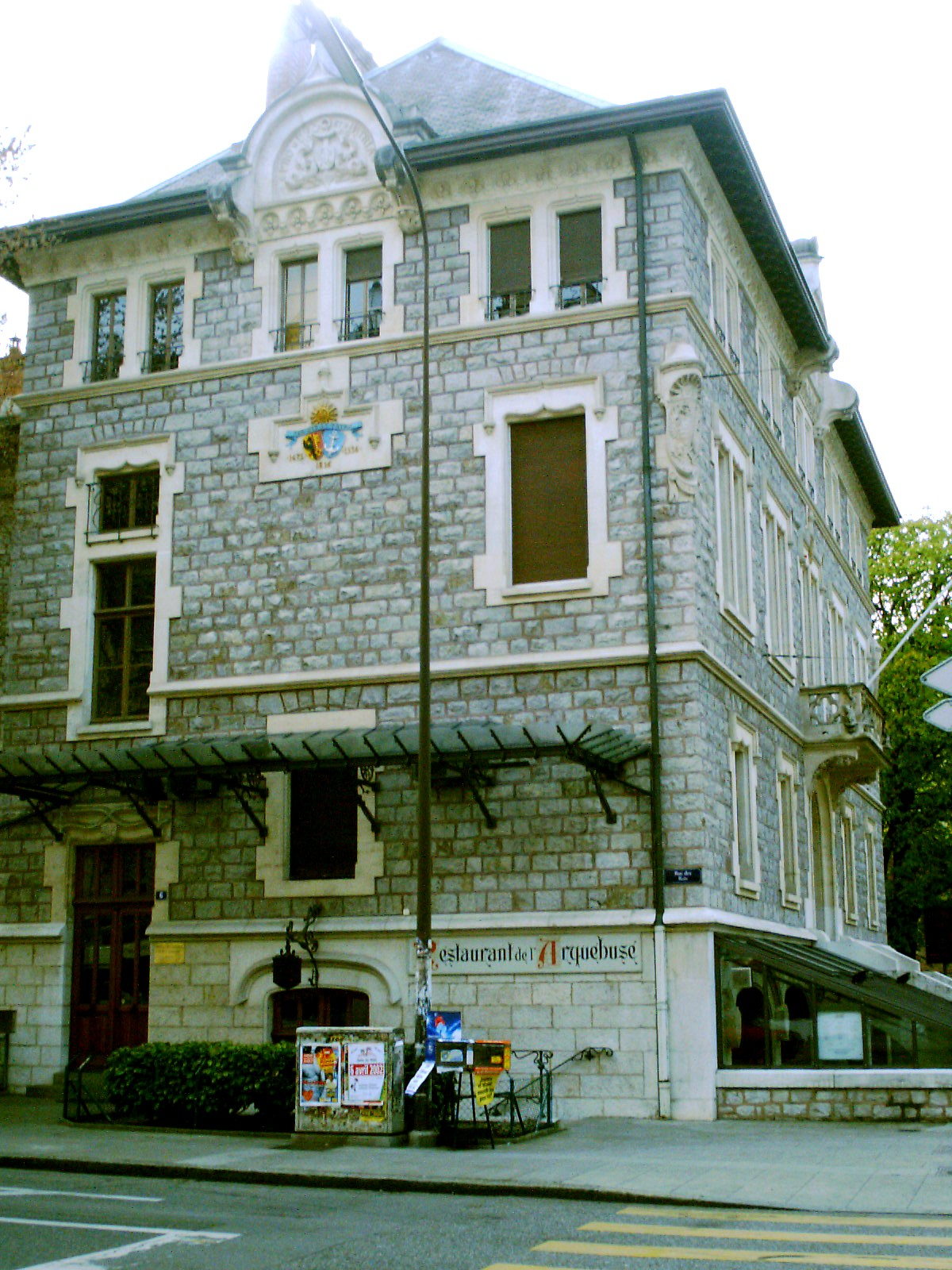 Arquebuse building in Geneva (Switzerland)